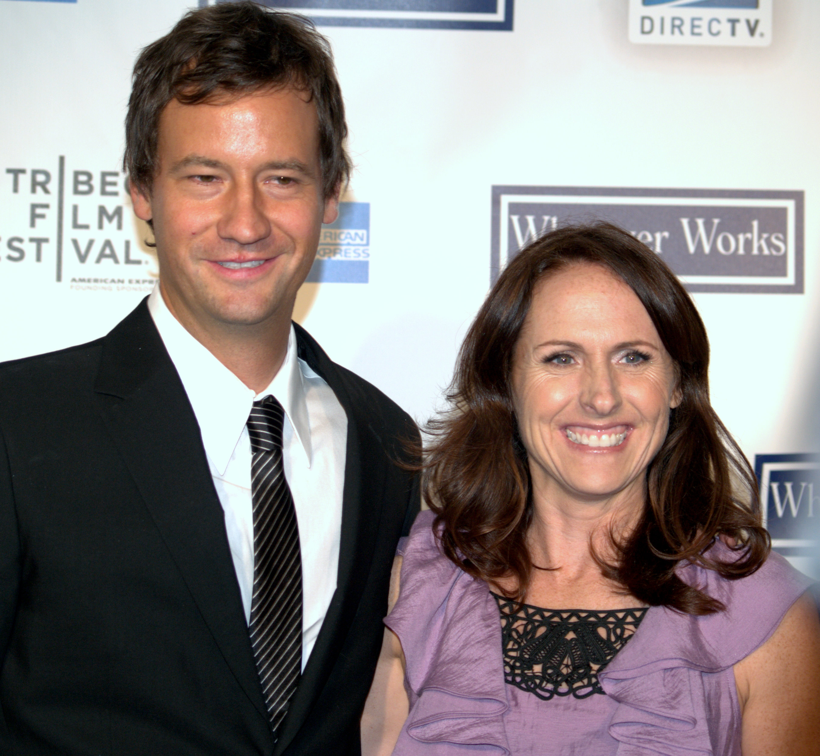 Fritz Chesnut and his wife Molly Shannon at the 2009 Tribeca Film Festival premiere of Woody Allen's film Whatever Works.